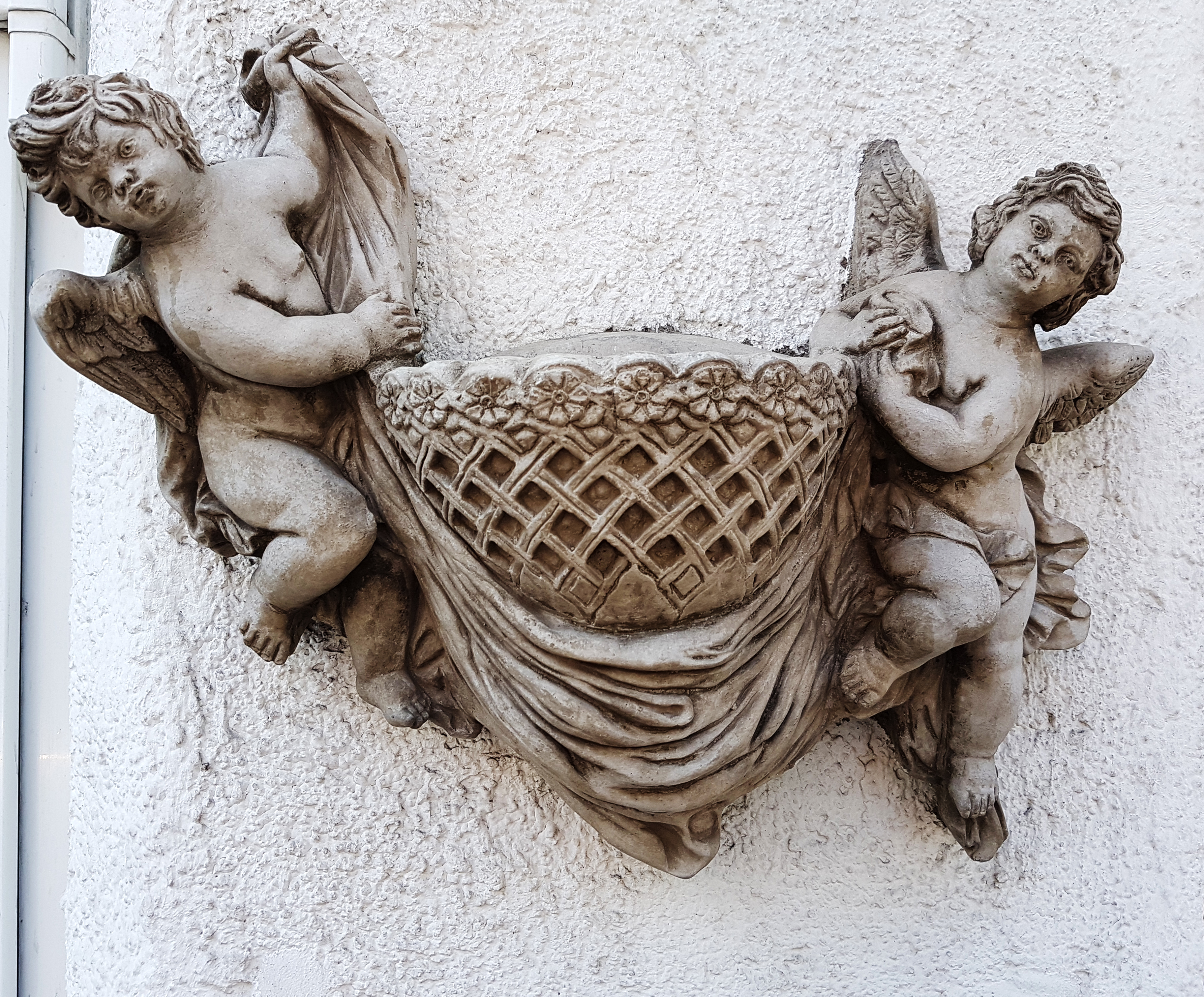 Dekorativ entrance, located in Bonn, Kölnstraße 45